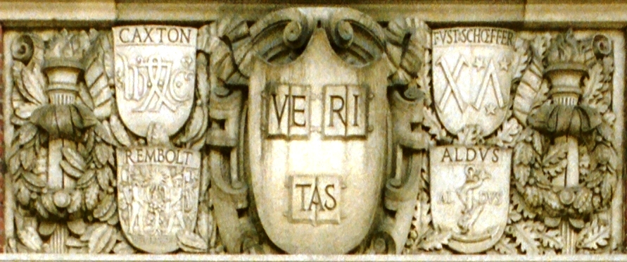 Detail above Main Entry Door, Harry Elkins Widener Memorial Library, Harvard University